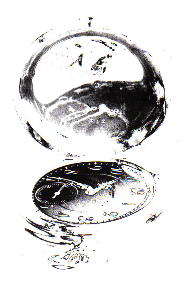 Pocket watch; black & white photo, processed in the darkroom